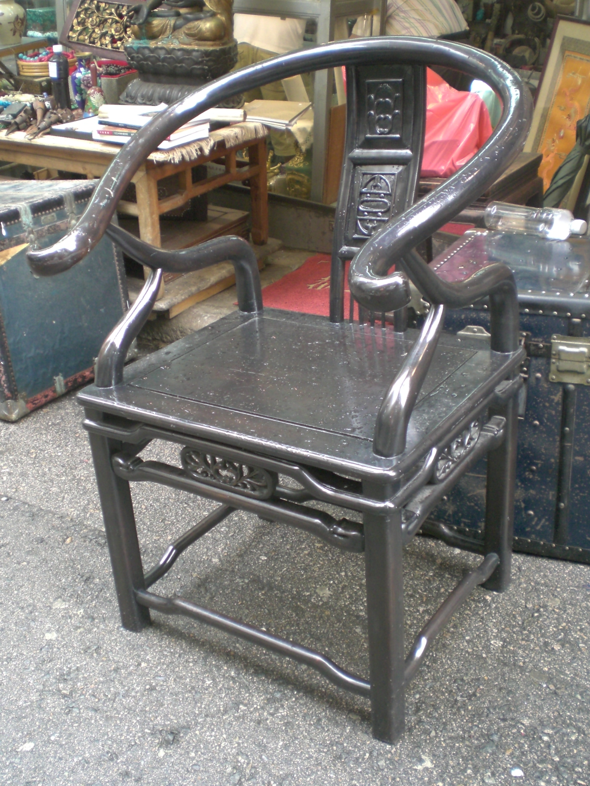 Upper Lascar Row, 摩羅街, 上環